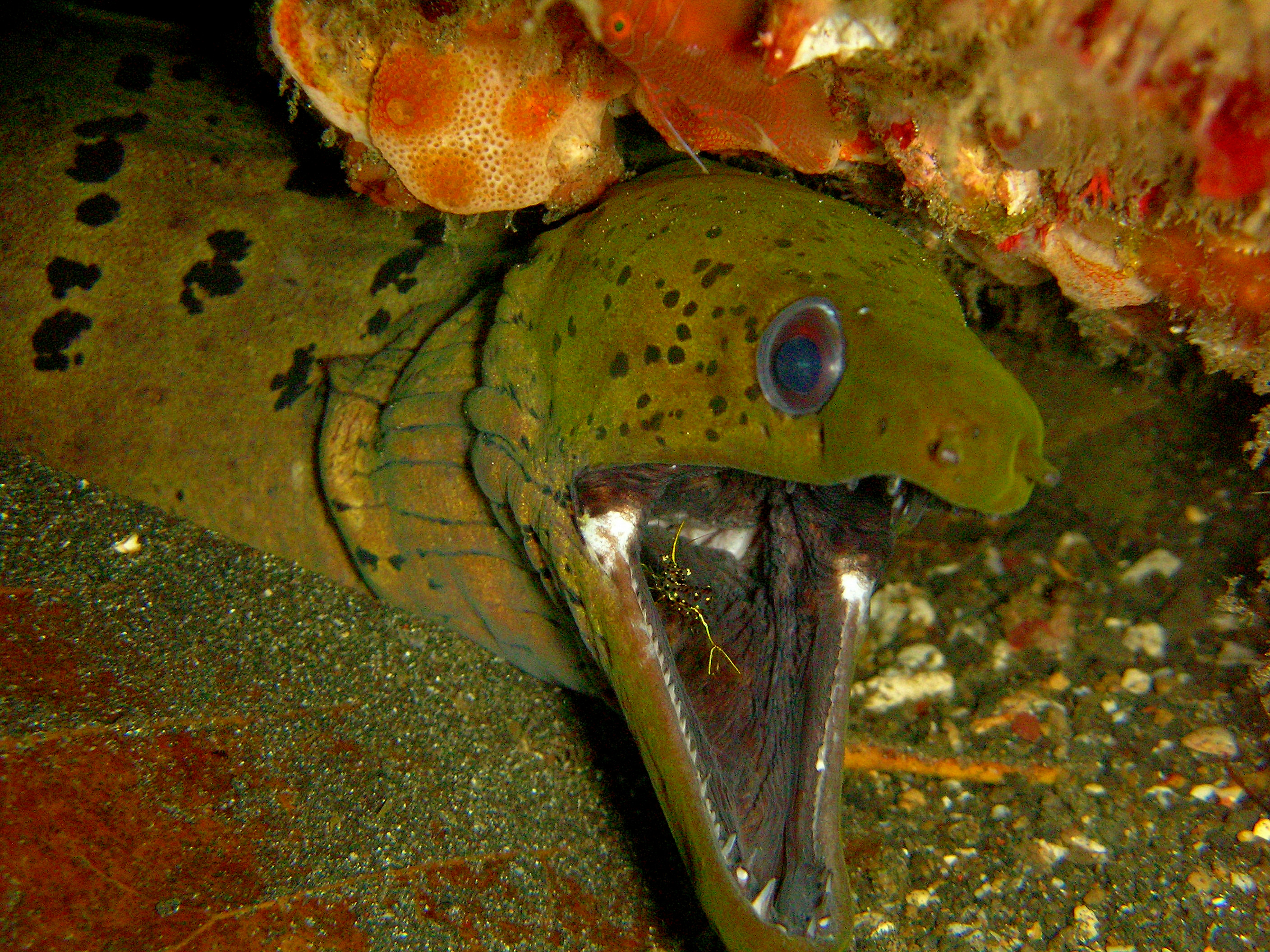 Moray Eel and Cleaner Shrimp